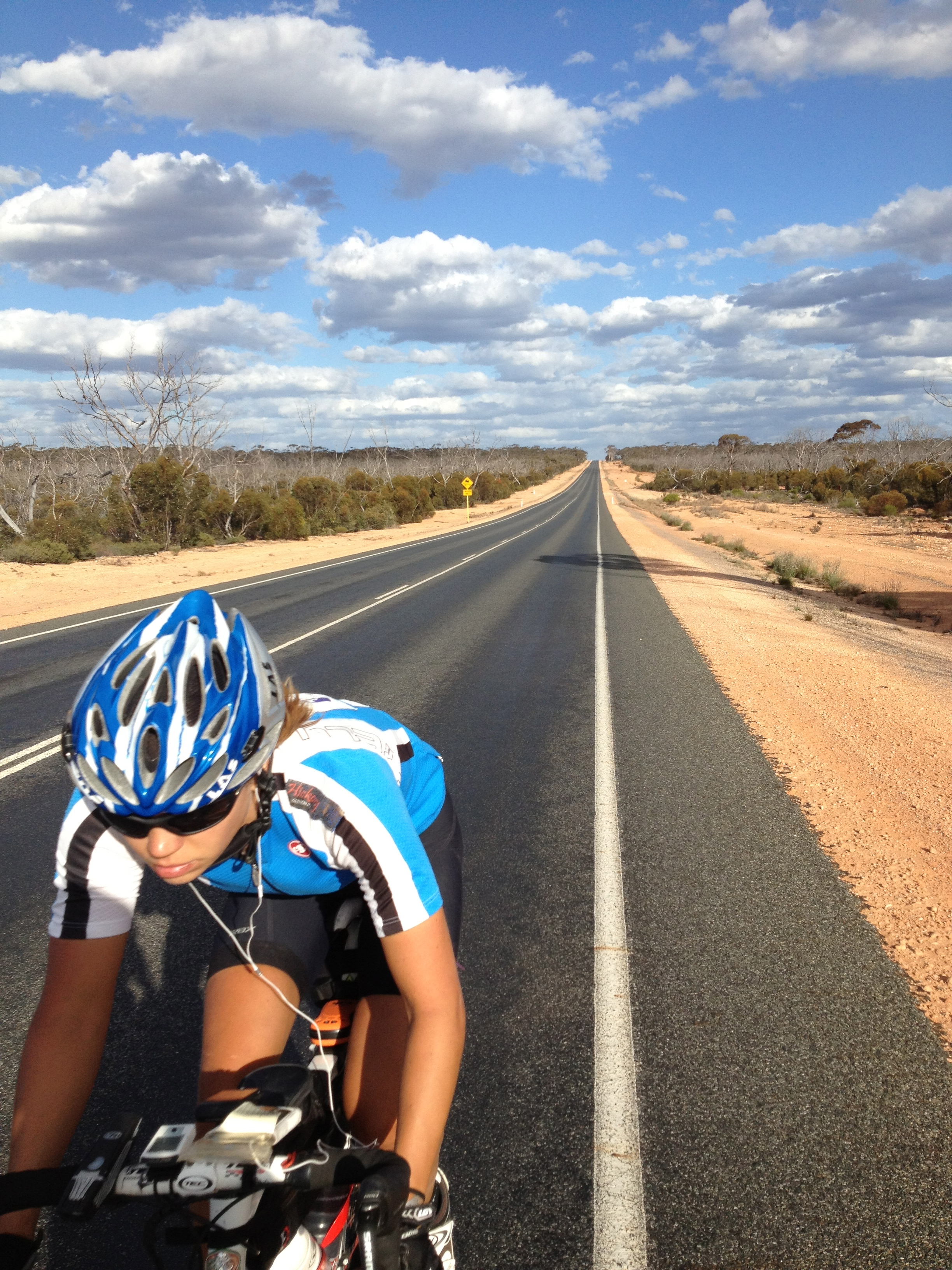 Juliana in Australia